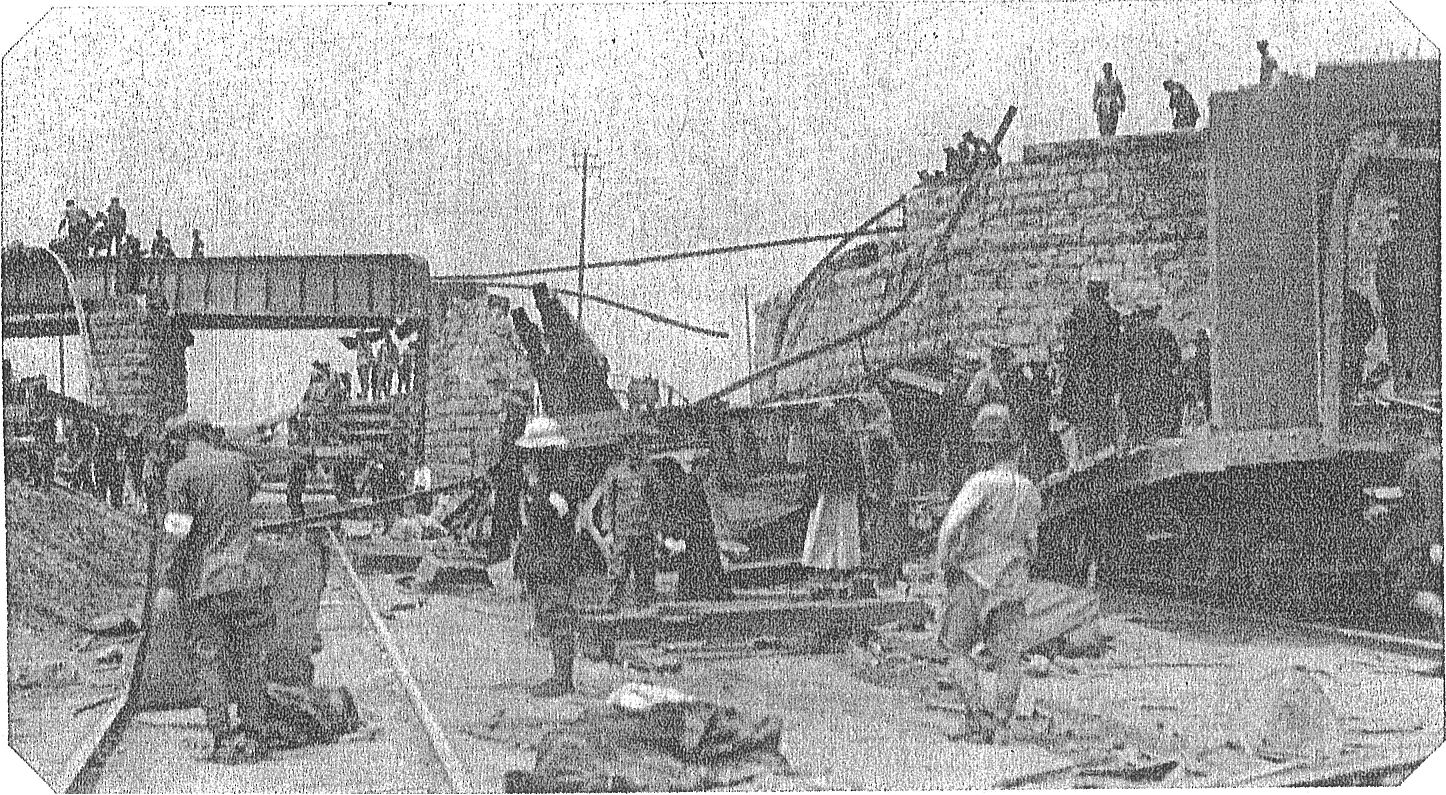 Casualties and relief squad activities